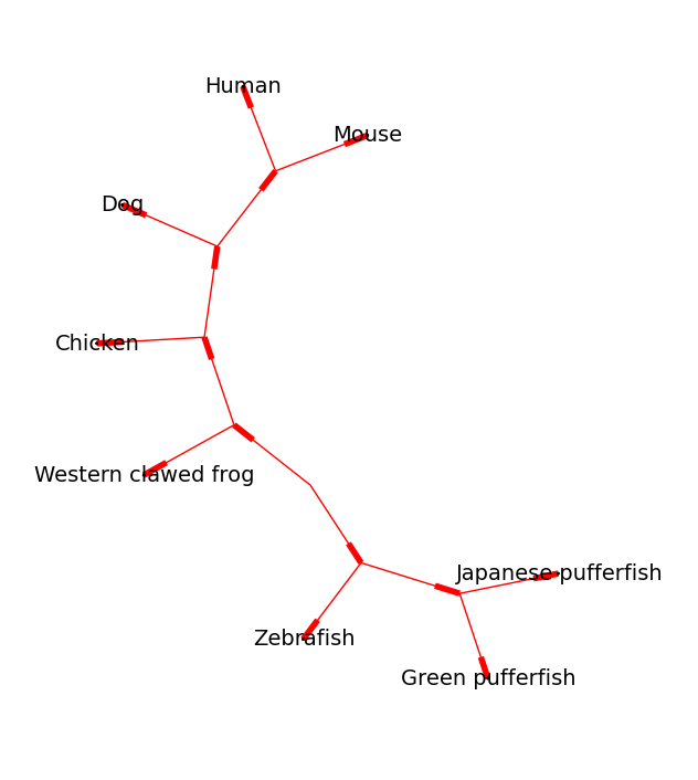 This graph is the output from the draw_graphviz function in Biopython's Bio.Phylo module. The data came from the article 'Surprising complexity of the ancestral apoptosis network' by Zmasek et al.